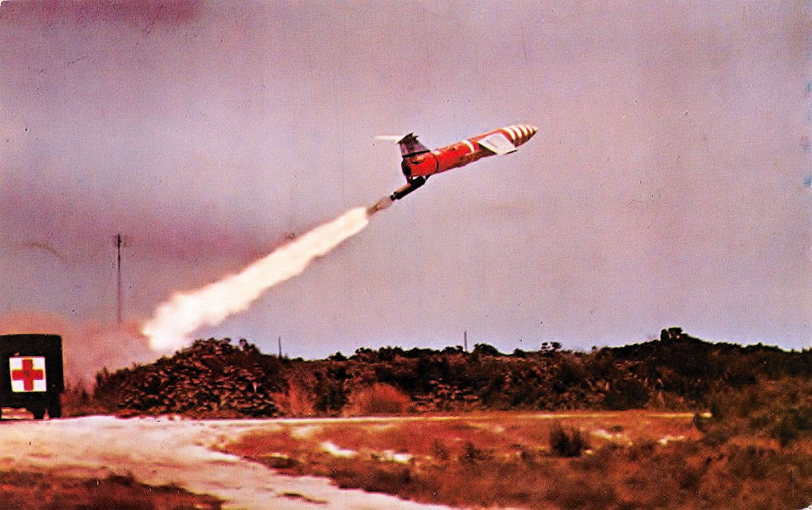 Patrick Air Force Base - MGM-1 Matador Cruise Missile